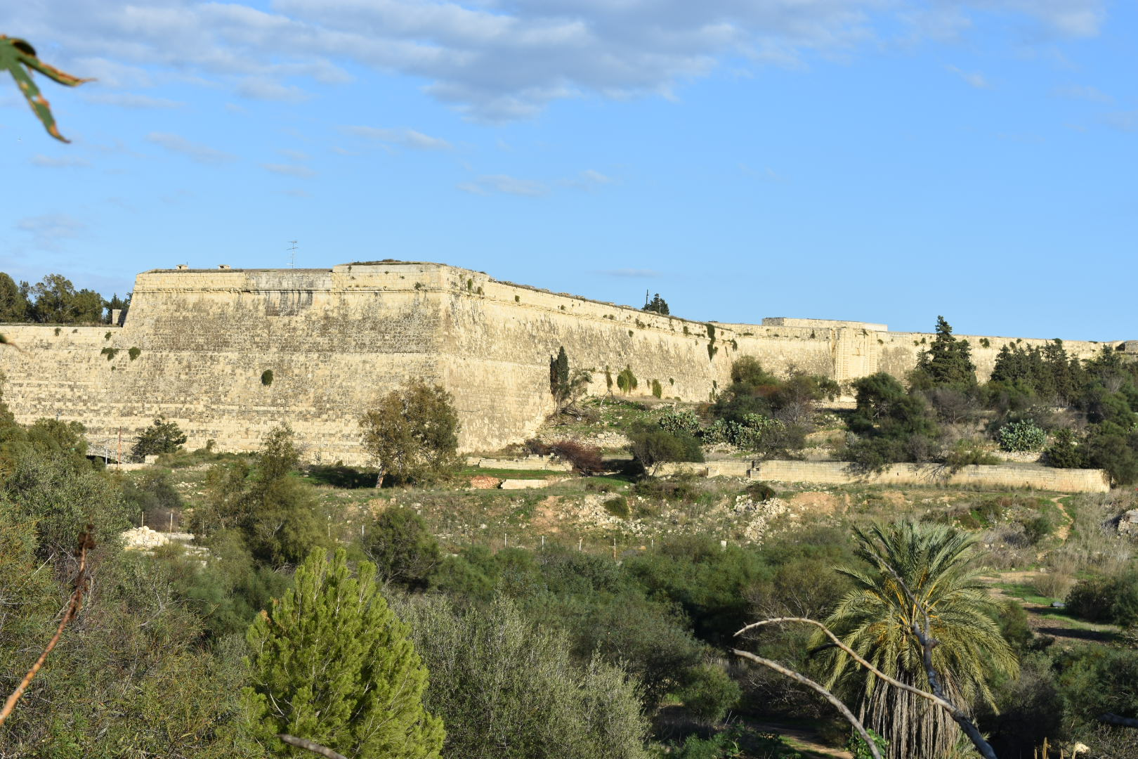 St. Paul Bastion of the Cottonera Lines (NOT the Santa Margherita Lines) This media is about Maltese cultural property with inventory number 01569.